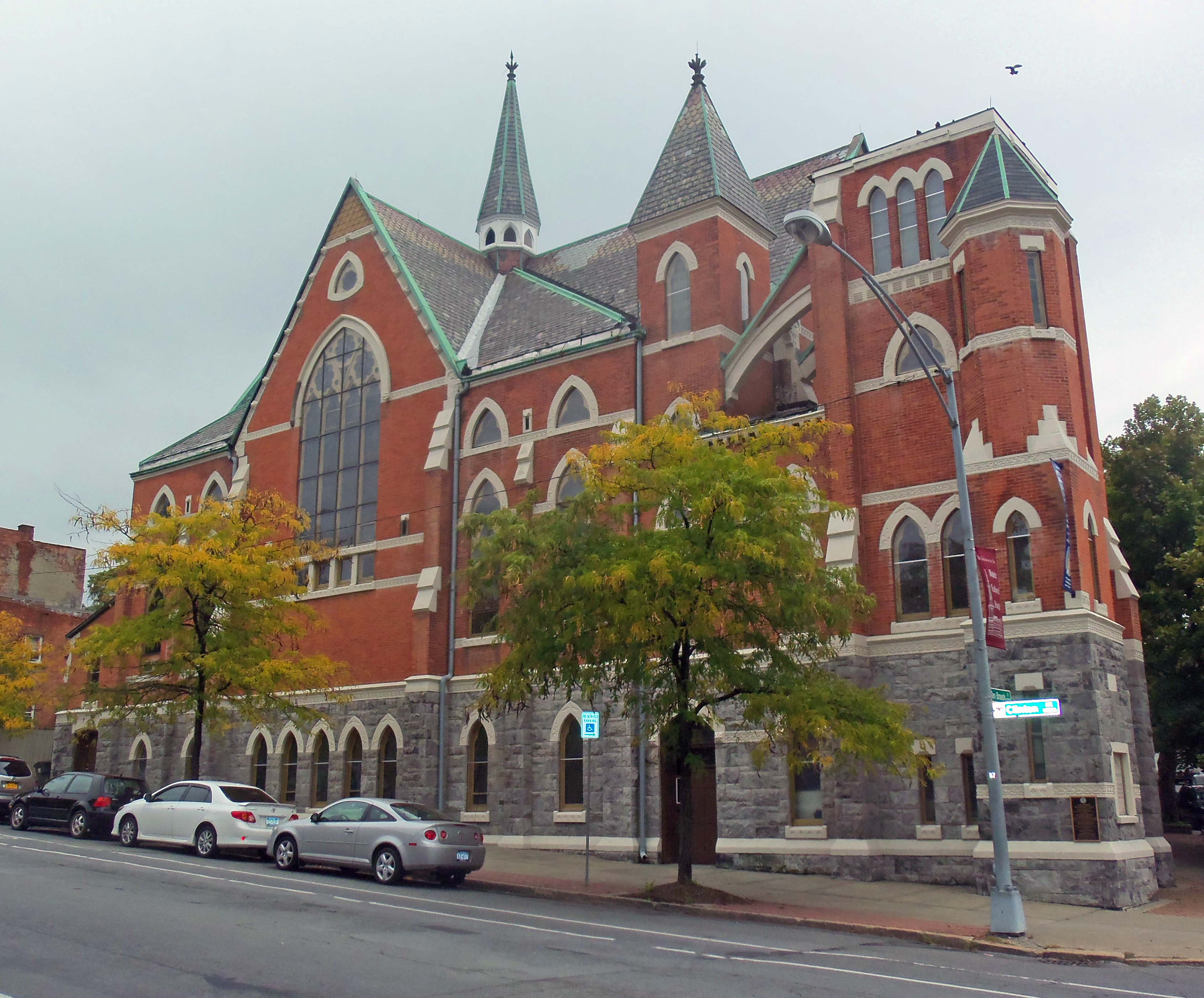 Sweet Pilgrim Baptist Church, a contributing property to the Arbor Hill Historic District in Albany, NY, USA